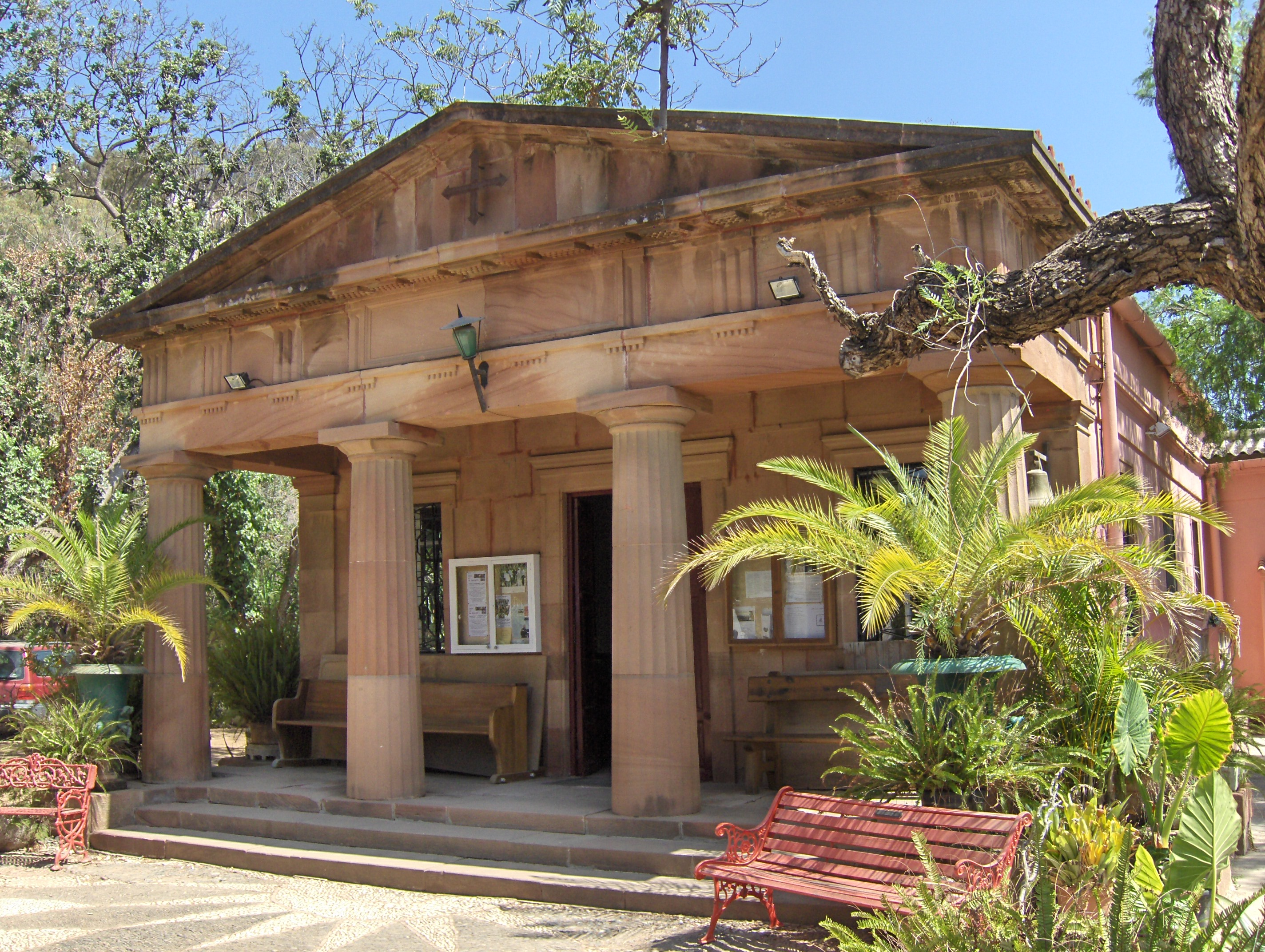 Saint George Anglican Church, Málaga. Built 1856.